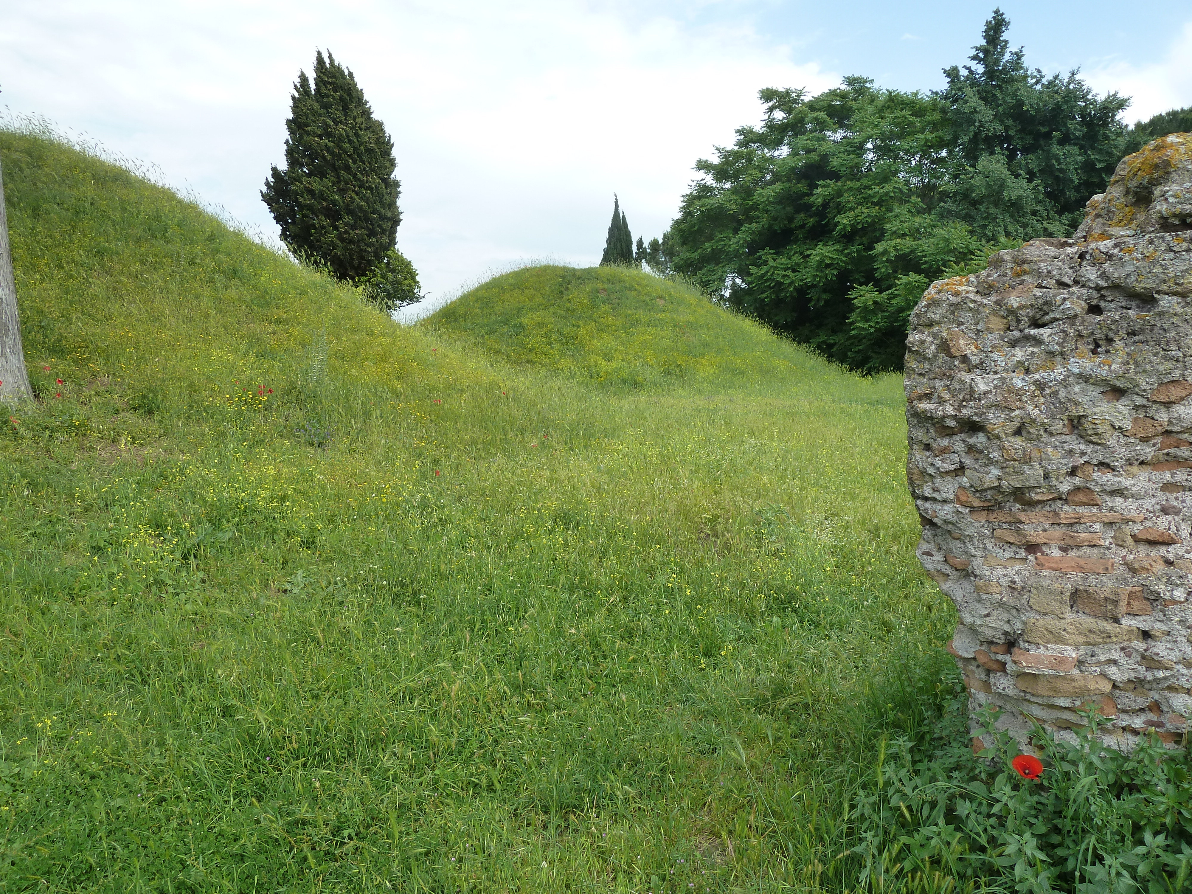 As file